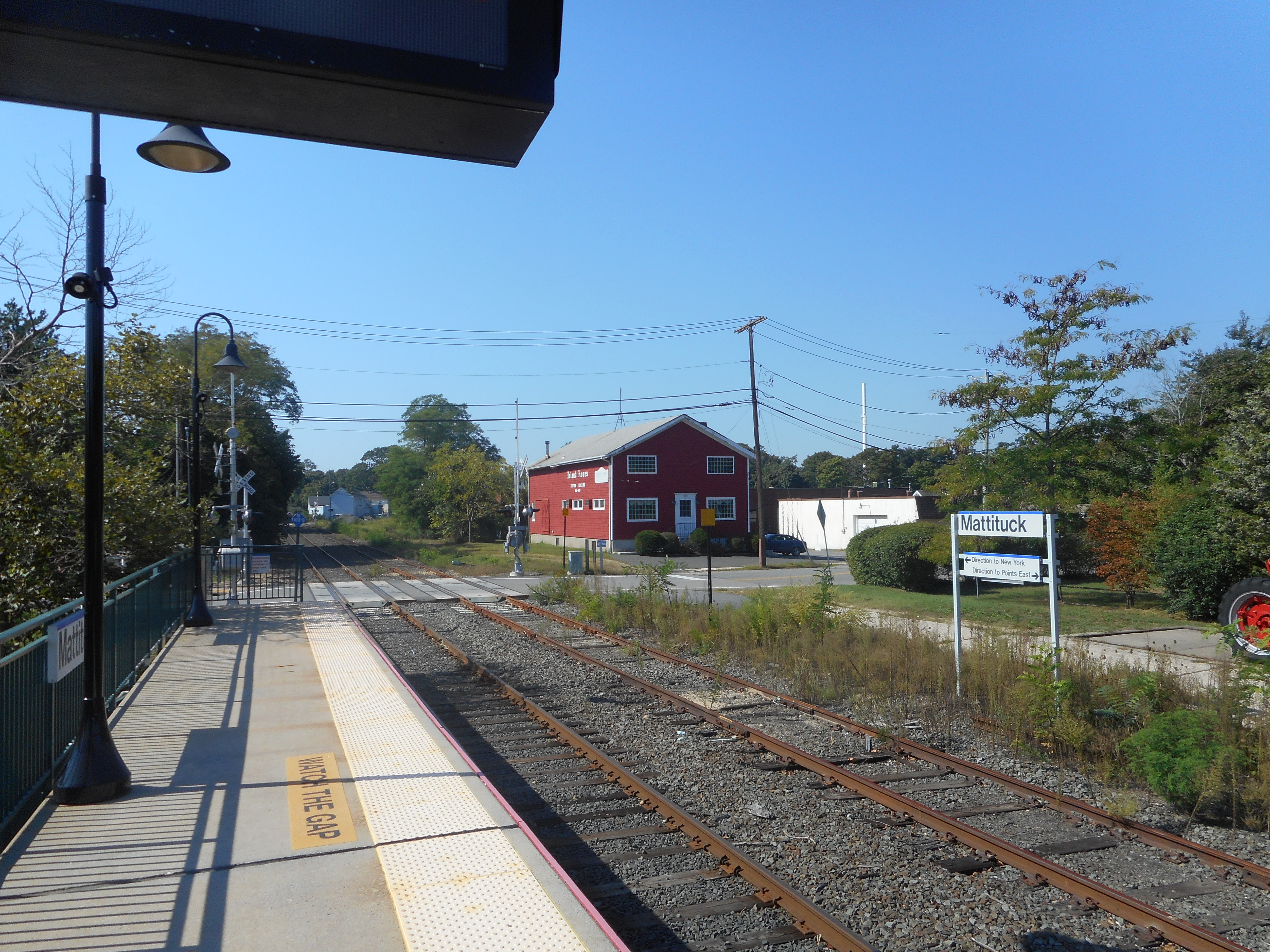 One of three former produce storage facilities used by Mattituck (LIRR station) in Mattituck, New York. Currently a real estate office.